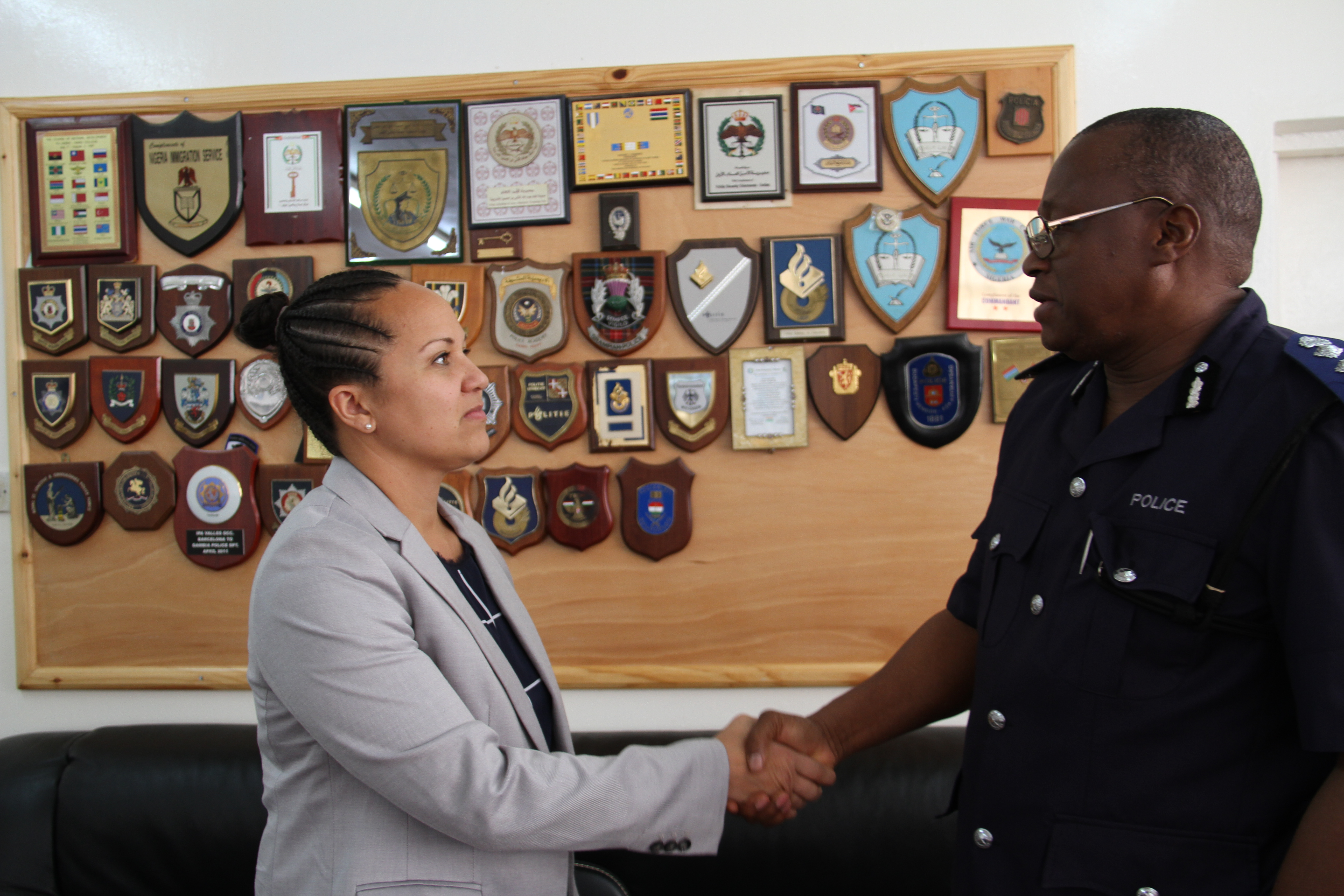 The DSS Regional Security Officer at the U.S. Embassy in Banjul, The Gambia, met with Gambian Inspector General of Police Mamour Jobe to discuss law enforcement priorities and future initiatives, Banjul, The Gambia, Dec. 10, 2019. (U.S. Department of State photo)